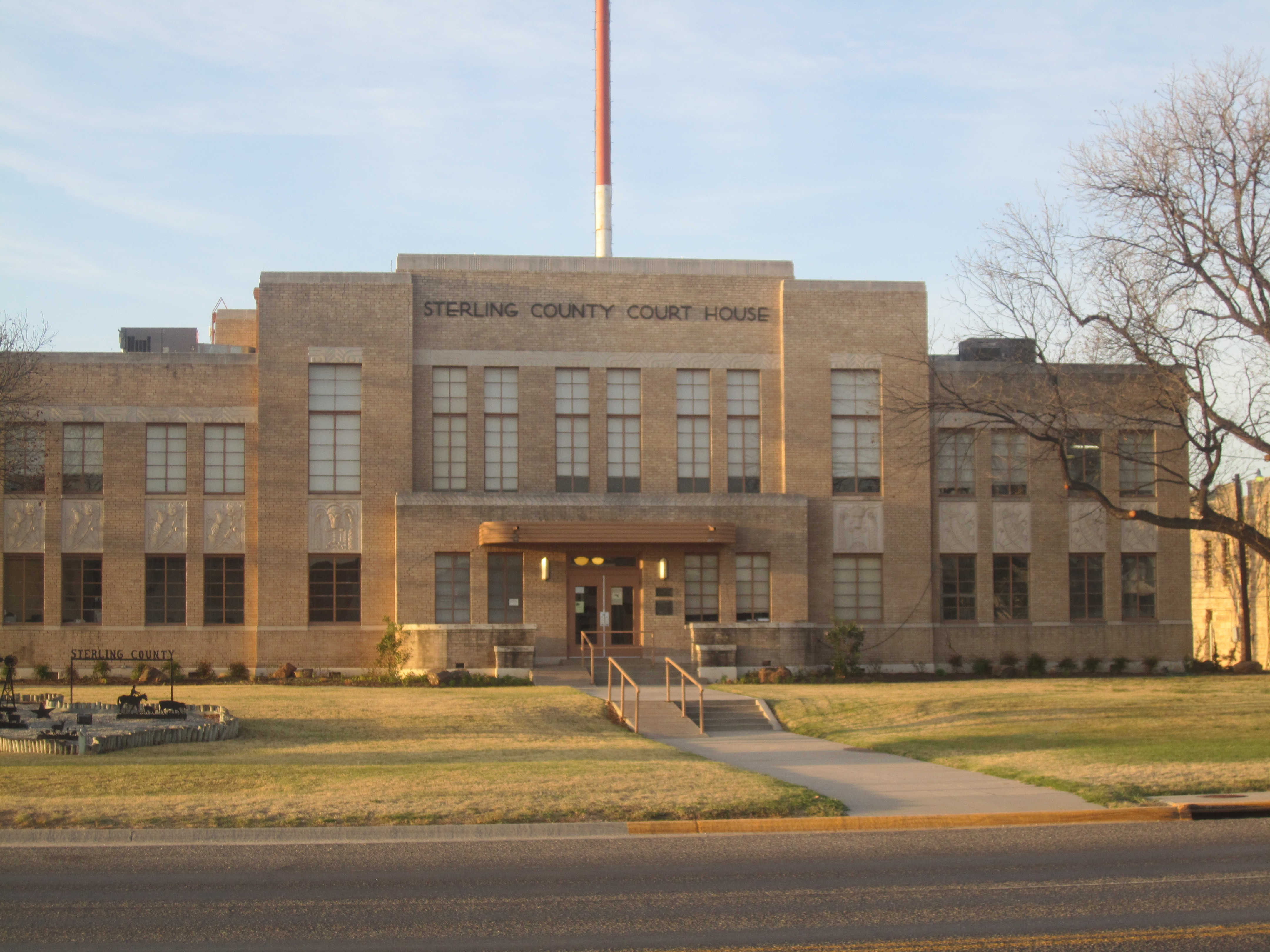 I took photo with Canon camera in Sterling City, TX.